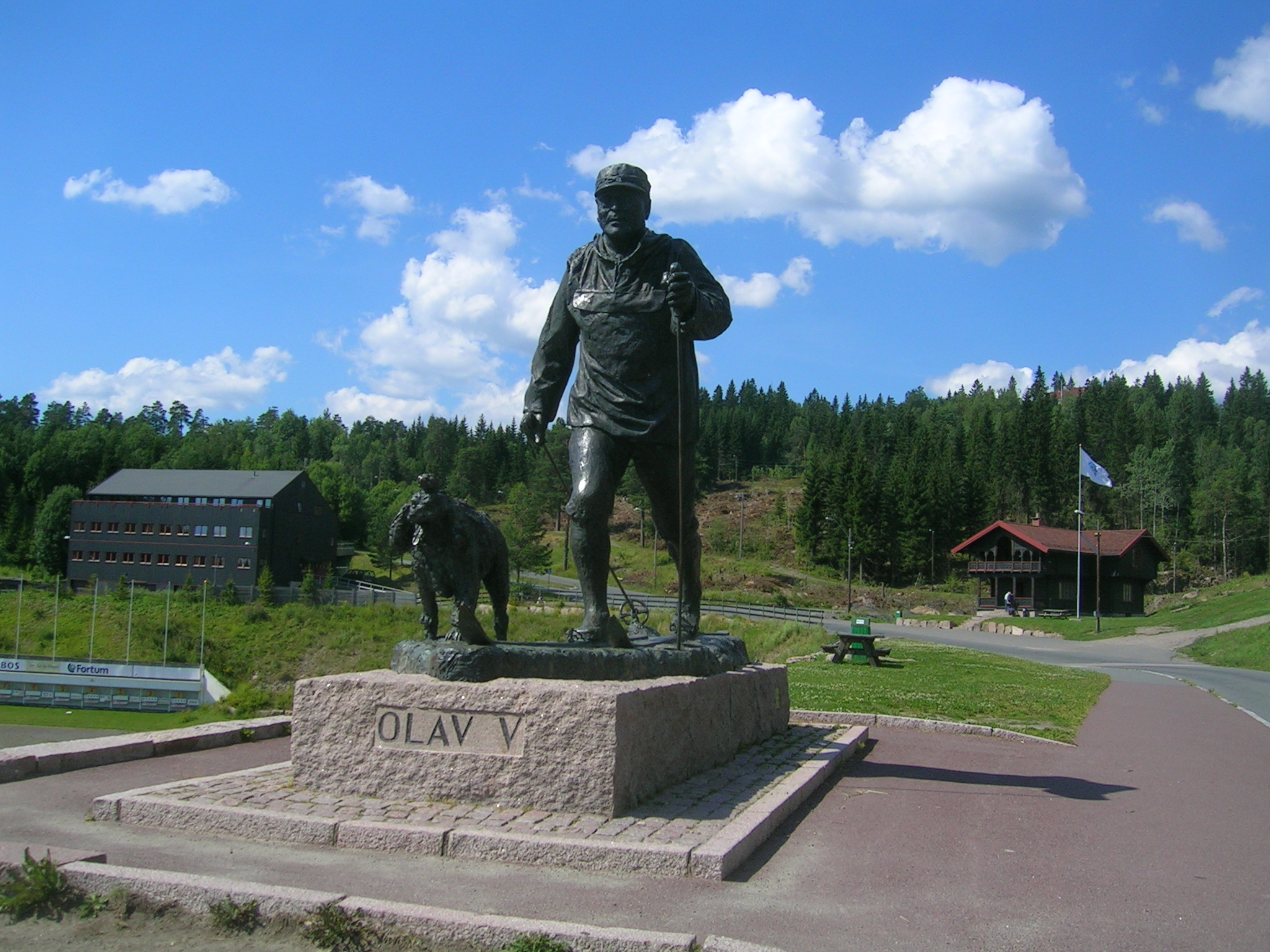 Statue of Olav V at Holmekollen, Oslo, by the Norwegian Sculptor Annasif Døhlen